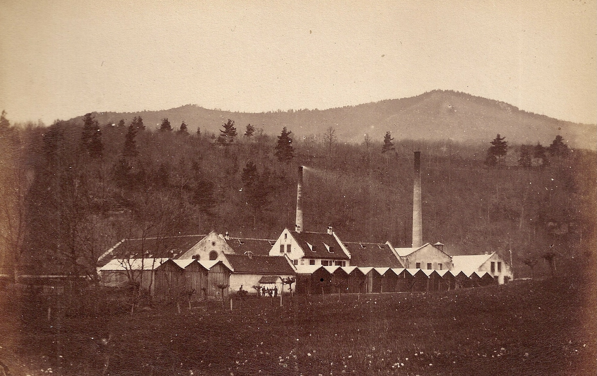 Ottrott, Alsace - France; Historical photo of the dye factory (entire site) at Muehlmatten, close to river Ehn, c. 1890